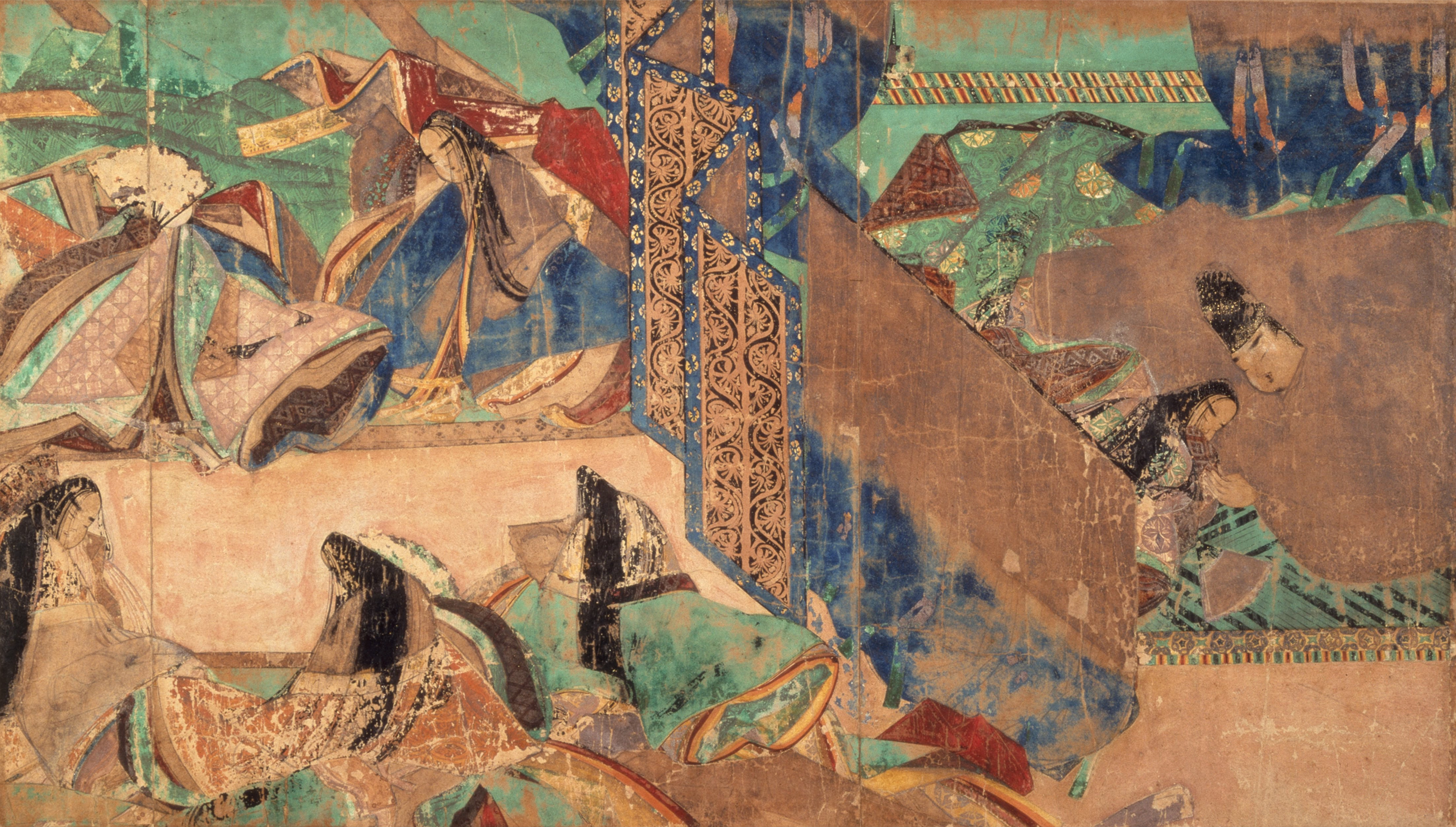 A scene of the Chapter "YADORI GI"( mistletoe ) of Illustrated handscroll of Tale of Genji (written by MURASAKI SHIKIBU(11th cent.). The handscroll was made in about ACE1130 and stored in TOKUGAWA Museum, Japan. The handscroll were separated to each sections and mounted to frame for conservation. Height about 21.5cm.